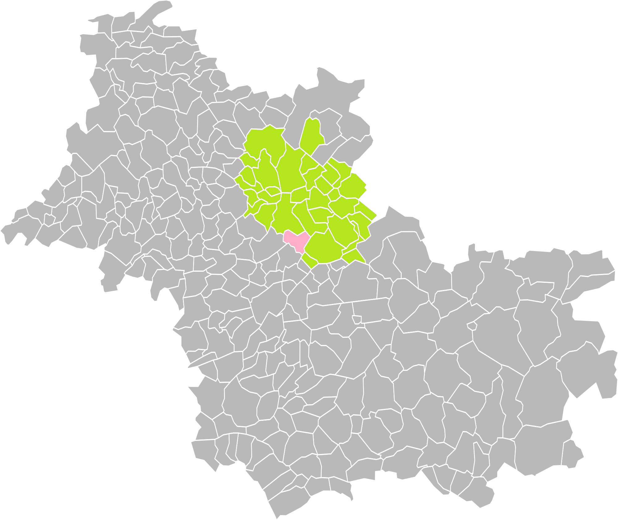 Location of the commune of Mulsans in the Communauté de communes de la Beauce-Val de Loire (Loir-et-Cher)